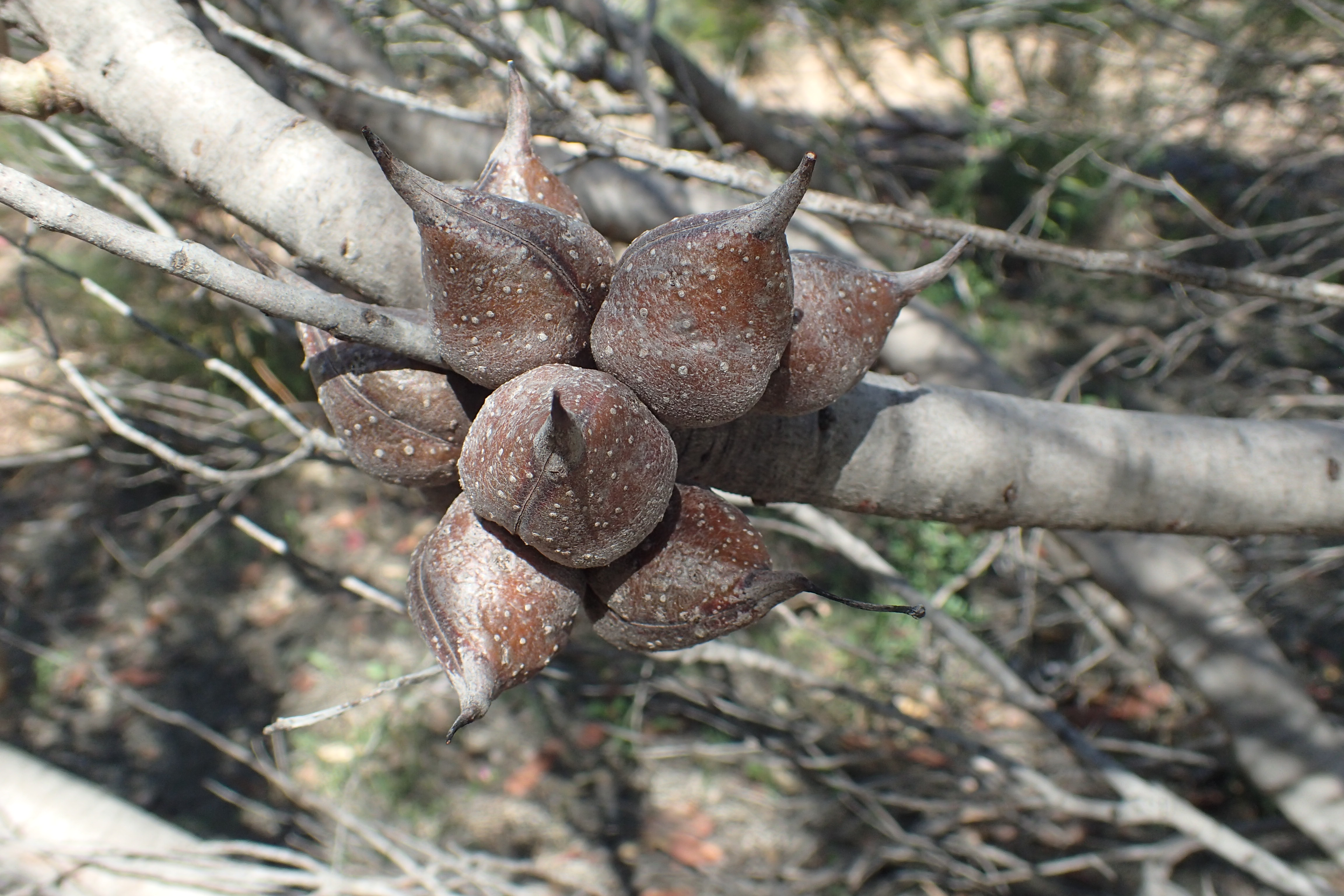 Fruit of Hakea orthorrhyncha in Kings Park Botanic Garden